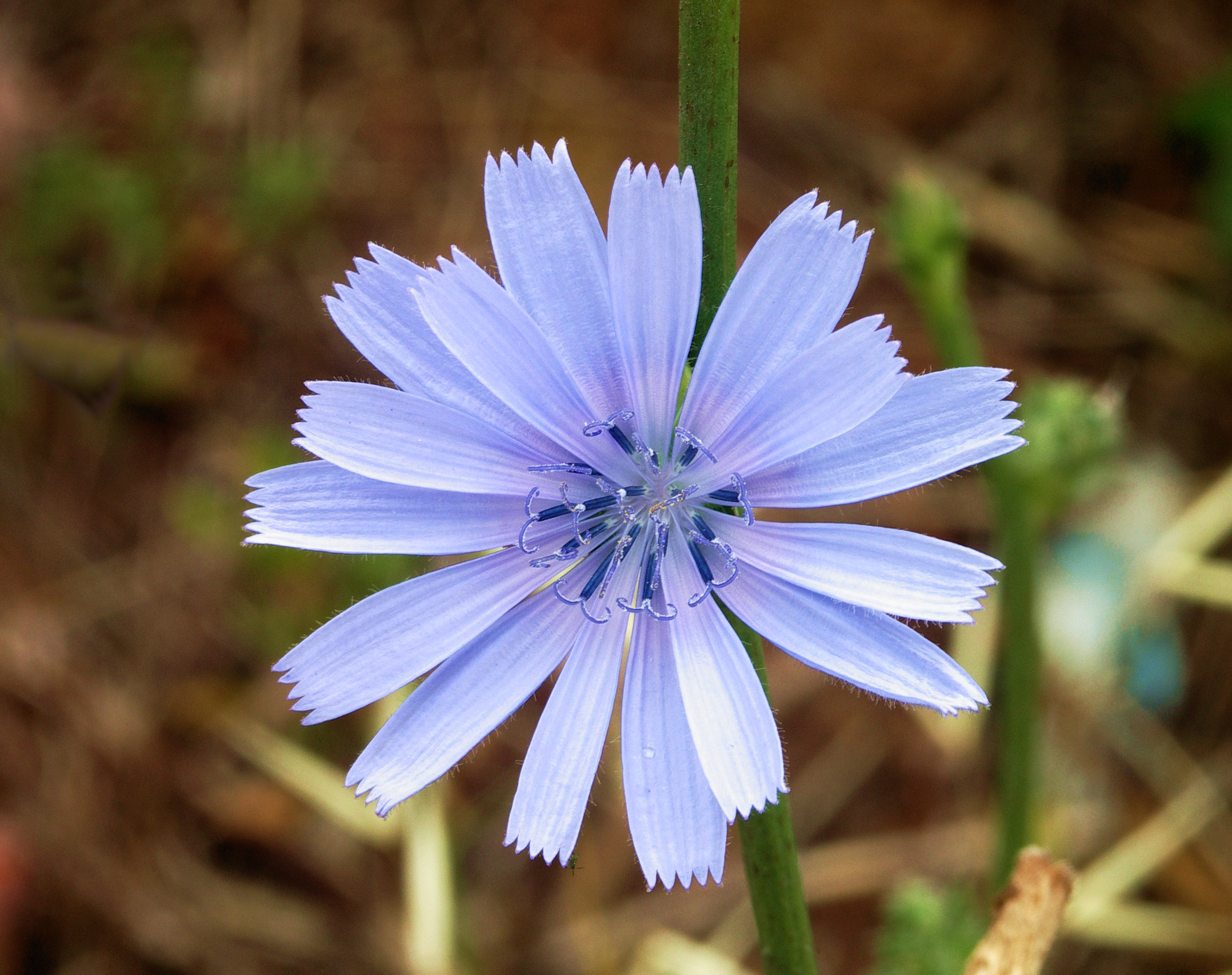 Blue wild flower of Cichorium intybus